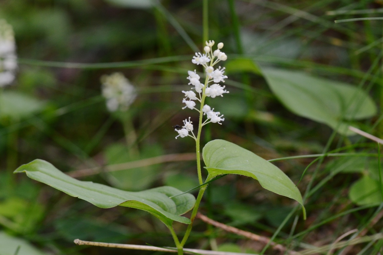 Maianthemum bifolium